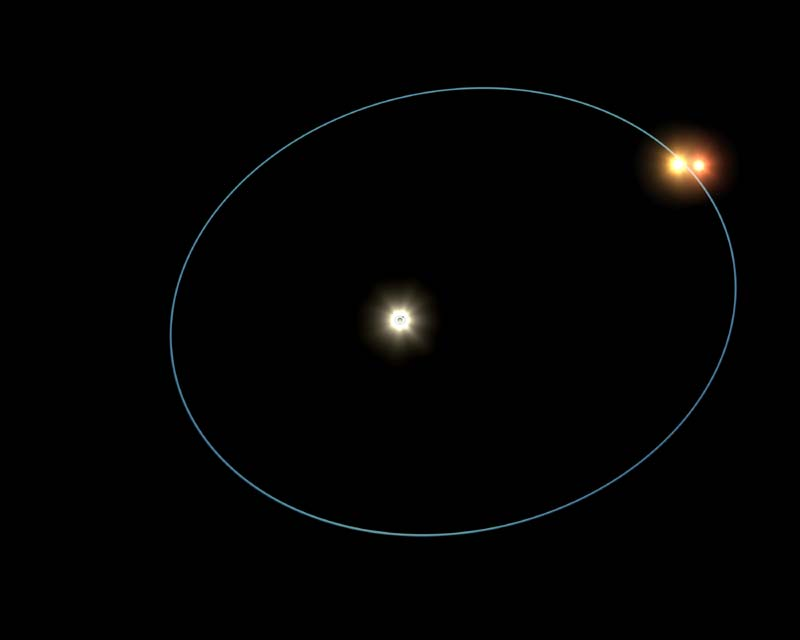 Orbit of HD 188753, a hierachical triple star system. This artist's concept shows the orbits of a triple-star system called HD 188753, which was discovered to harbor a gas giant, or "hot Jupiter," planet.